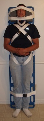 Grady Straps Full View Image